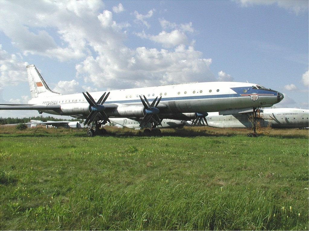 A Tupolev Tu-114 of Aeroflot